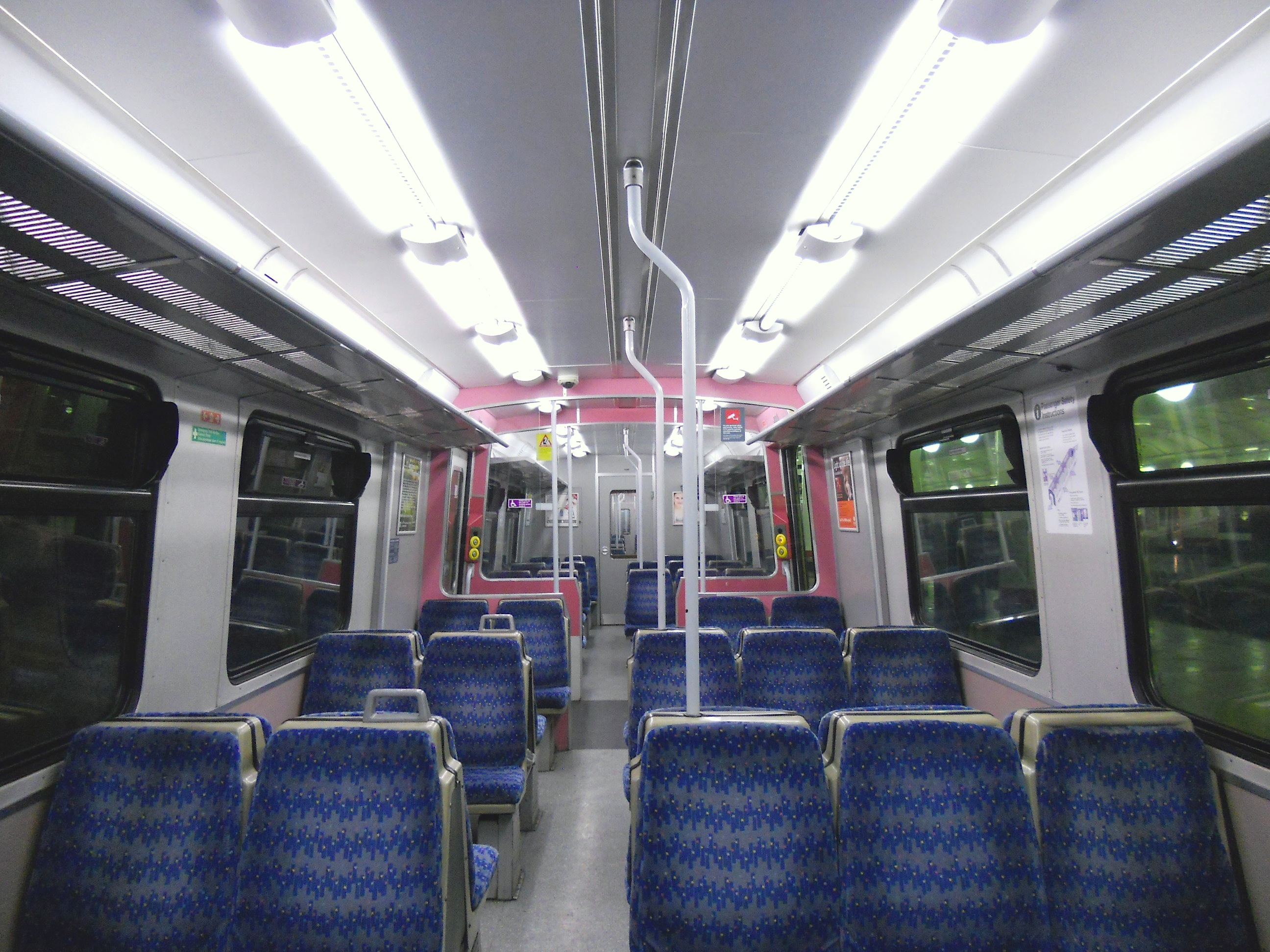 The interior of a one Railway refurbished TSO vehicle from a Class 315